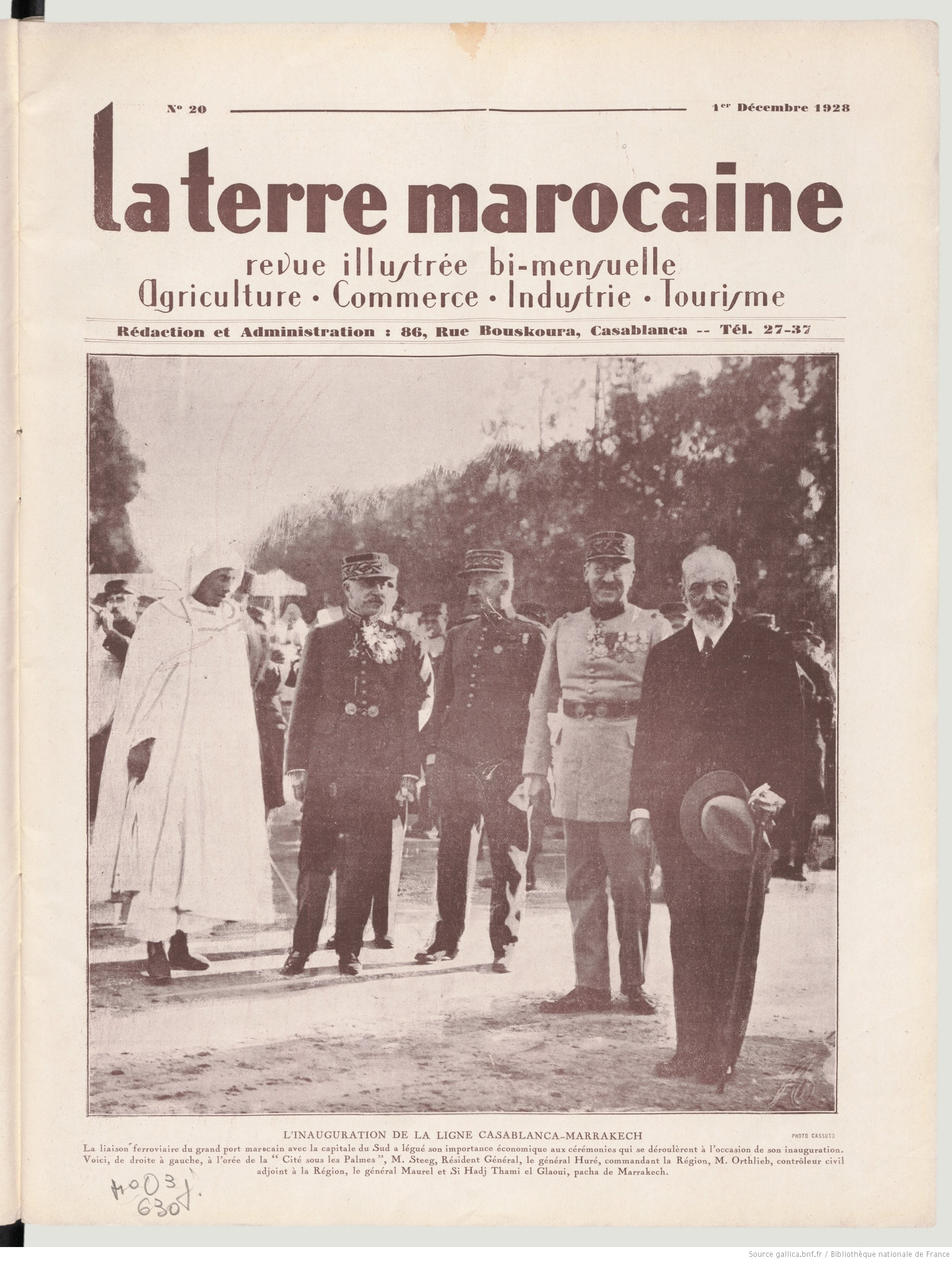 la terre marocaine (1 revue illuyt rée bi-menfuelle Agriculture Commerce. InduJtrie e Touritme Rédaction et Administration : 86, Rue Bouskonra, Casablanca - Tél. 27-:i? L'INAUGURATION DE LA LIGNE CASABLANCA-MARRAKECH PHOTO CASSUTJ La liaison ferroviaire du grand port marocain avec la capitale du Sud a légué son importance économique aux cérémonies qui se déroulèrent à l'occasion de son inauguration. Voici, de droite à gauche, à l'orée de la Cité sous les Palmes", M. Steeg, Résident Général, le général Huré, commandant la Région, M. Orthlieb, contrôleur civil ..,. v adjoint à la Région, le général Maurel et Si Hadj Thami el Glaoui, pacha de Marrakech.